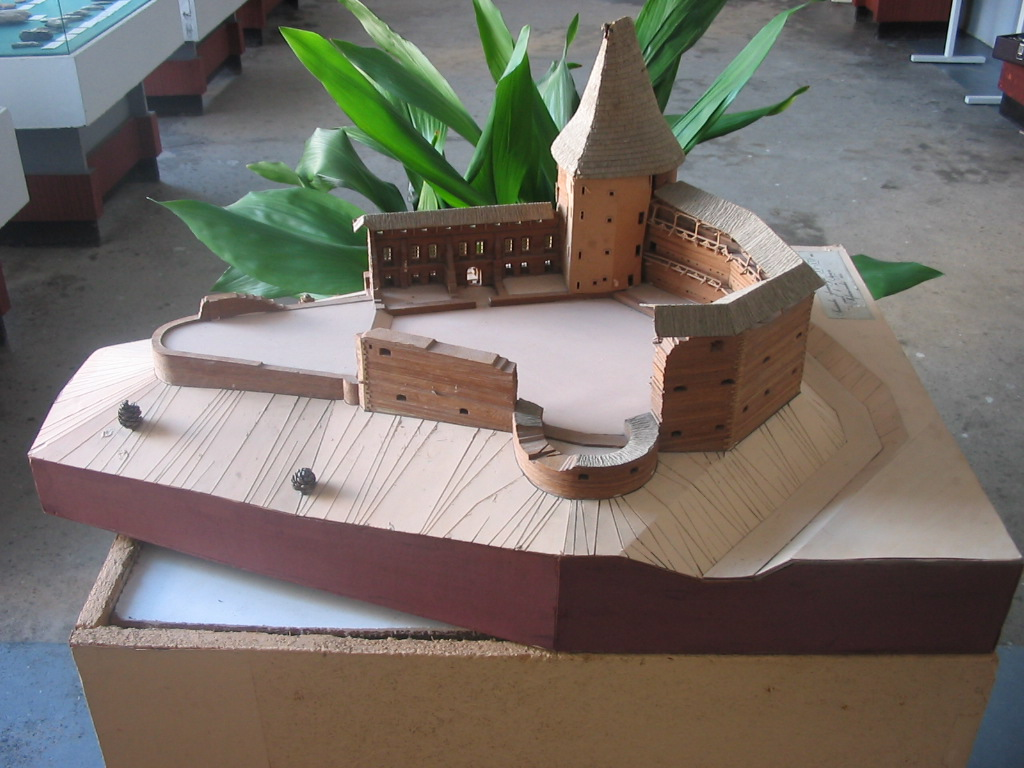 Model of Buchach Castle, Buchach Museum, Buchach, Ukraine